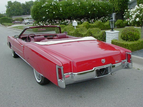 1971 Eldorado owned by Bill Mitchell